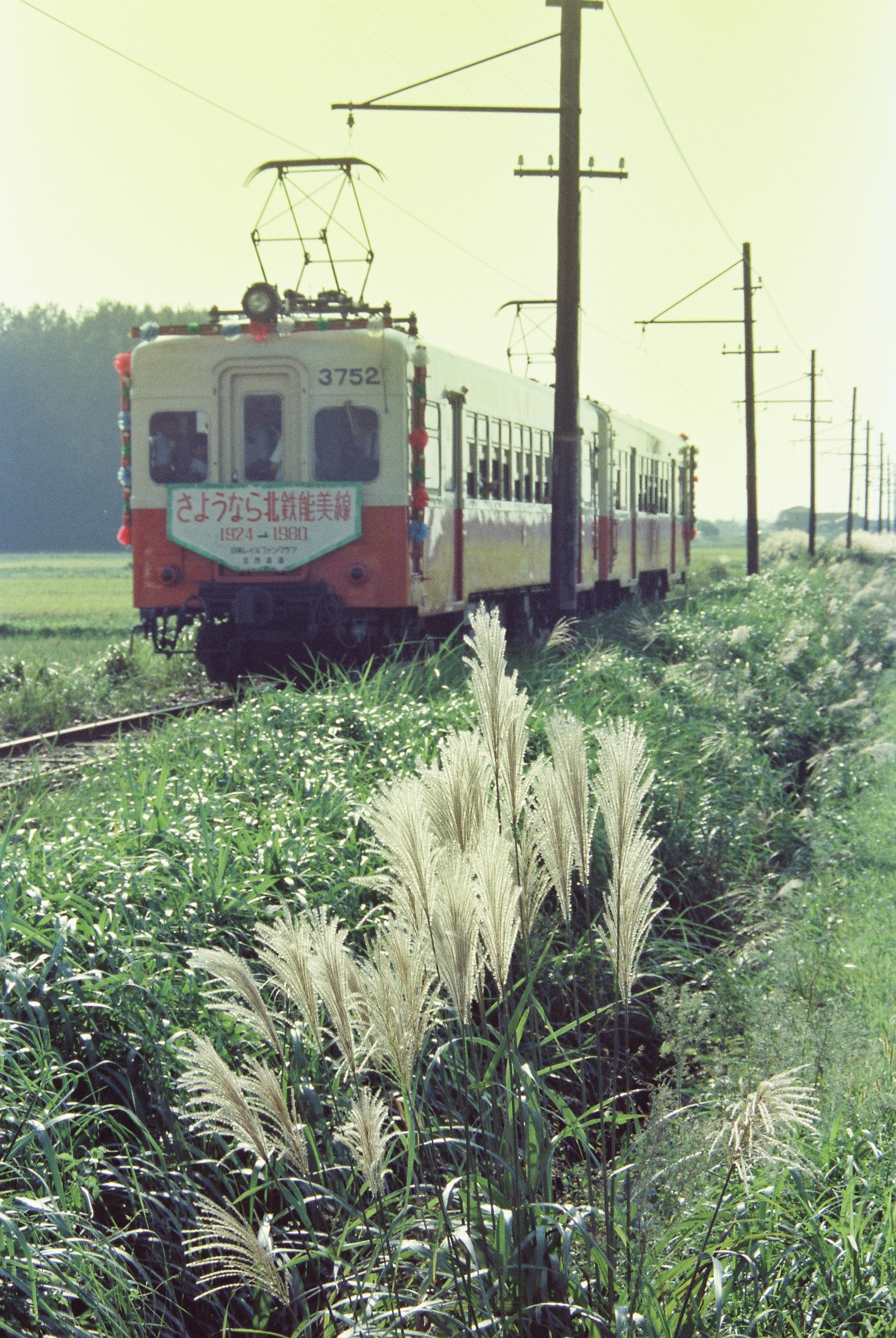 北陸鉄道能美線